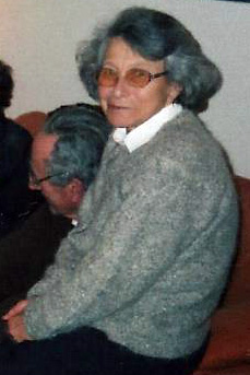 Chemistry doctor and peace activist in Israel, but most prominently notable as a 12 year old girl, who survives the holocaust and writes a short memoir in polish in 1944, published in Poland in 1946.